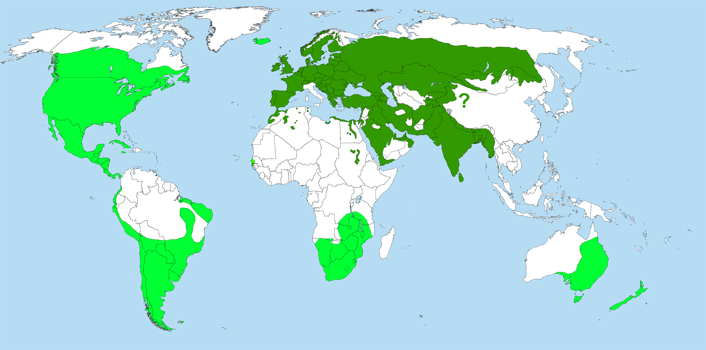 Distribution map of Passer domesticus. Dark green = natural range, light green = introduced range.Srpskohrvatski / српскохрватски: Rasprostranjenost domaćeg vrapca